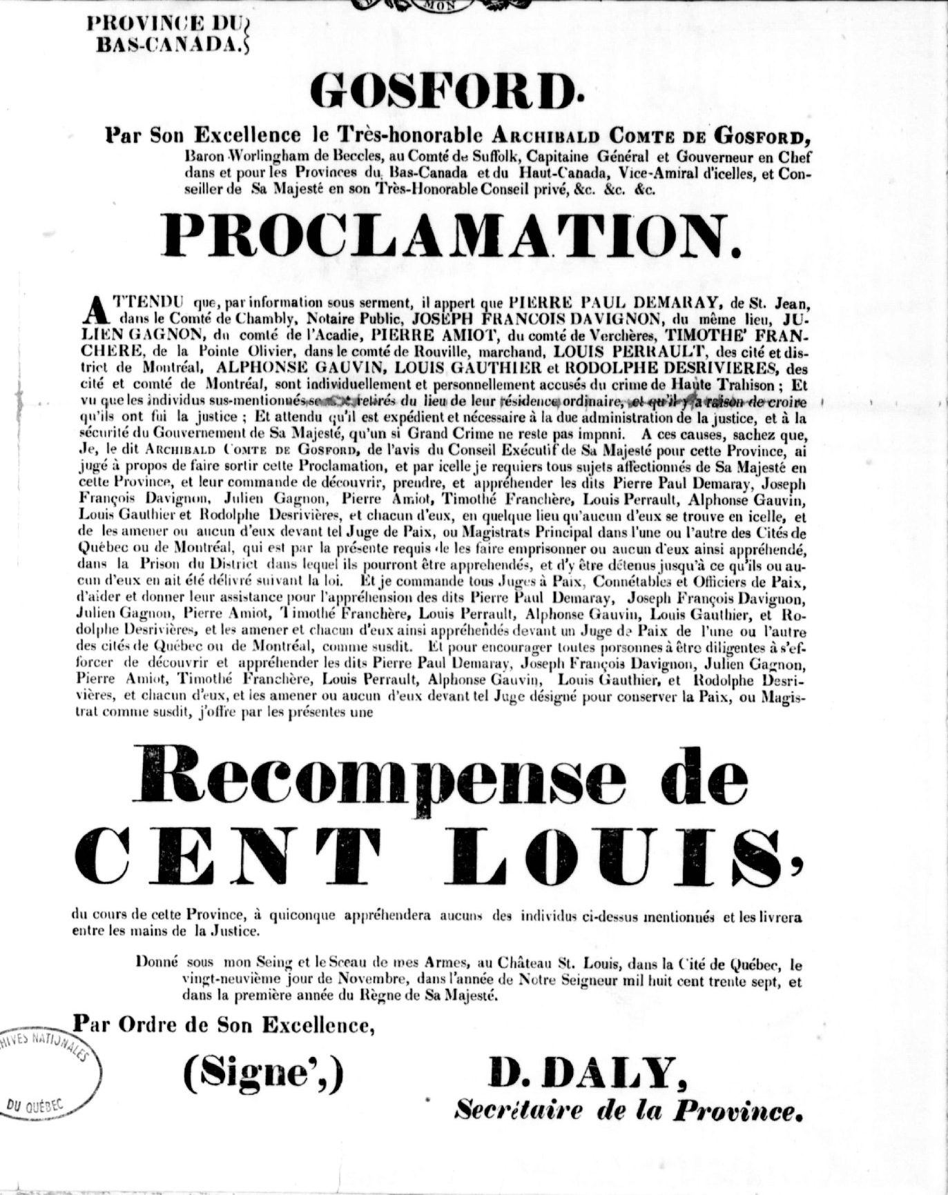 Proclamation issued November 29, 1837 by British Governor Gosford offering a reward for the capture of Canadian Patriots